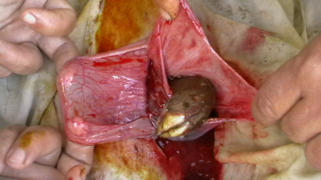 Ectopic gestation (going to term) in a ewe : legg appearing out of the uterus during caesarian section. Walon: Poirtêye foû matrice moennêye a s' tins a ene berbis : li pate si voet inte deus toeles do vinte, foû del matrice.